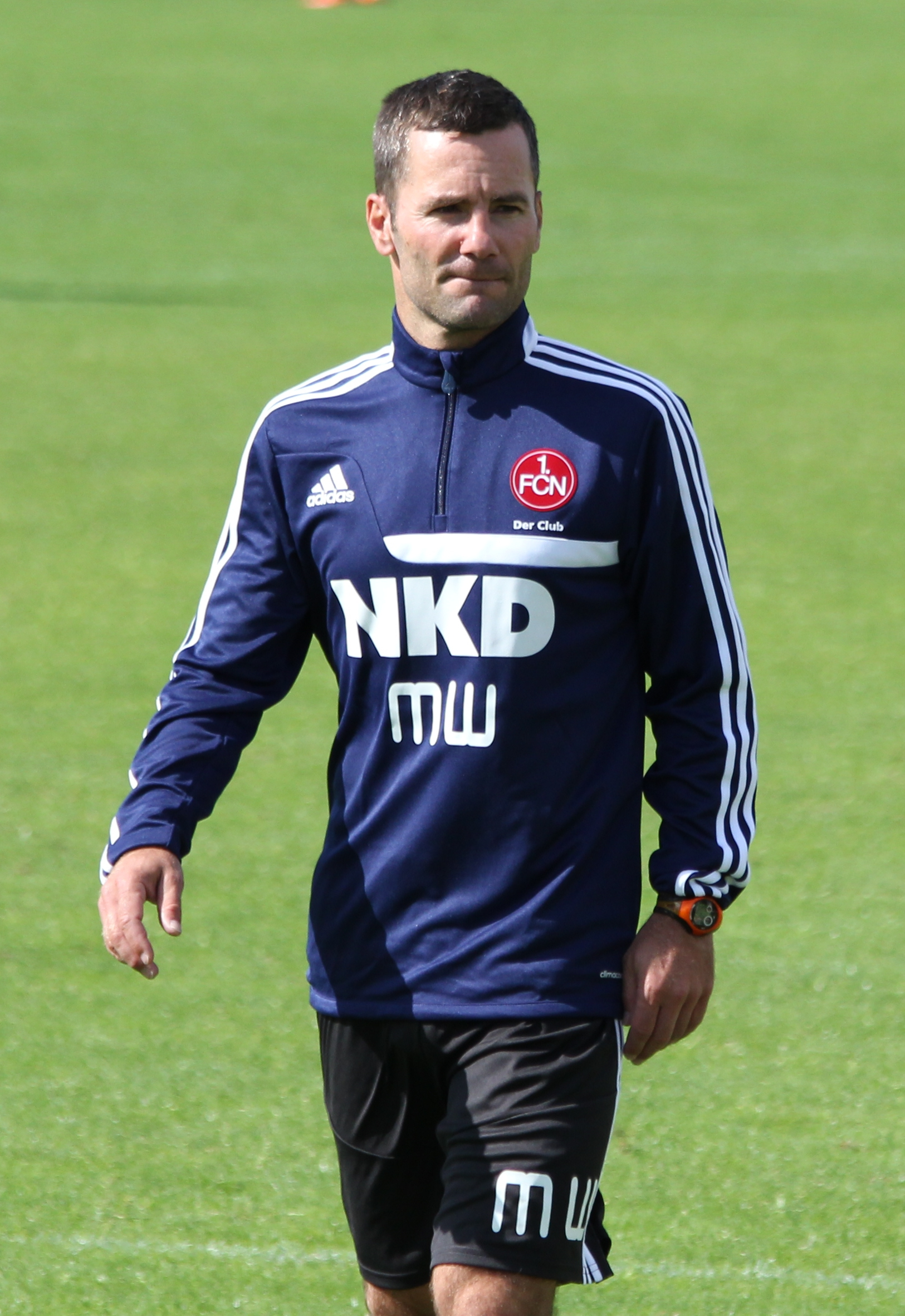 Michael Wiesinger, coach for German side 1. FC Nürnberg, 2012/13 season, first training session